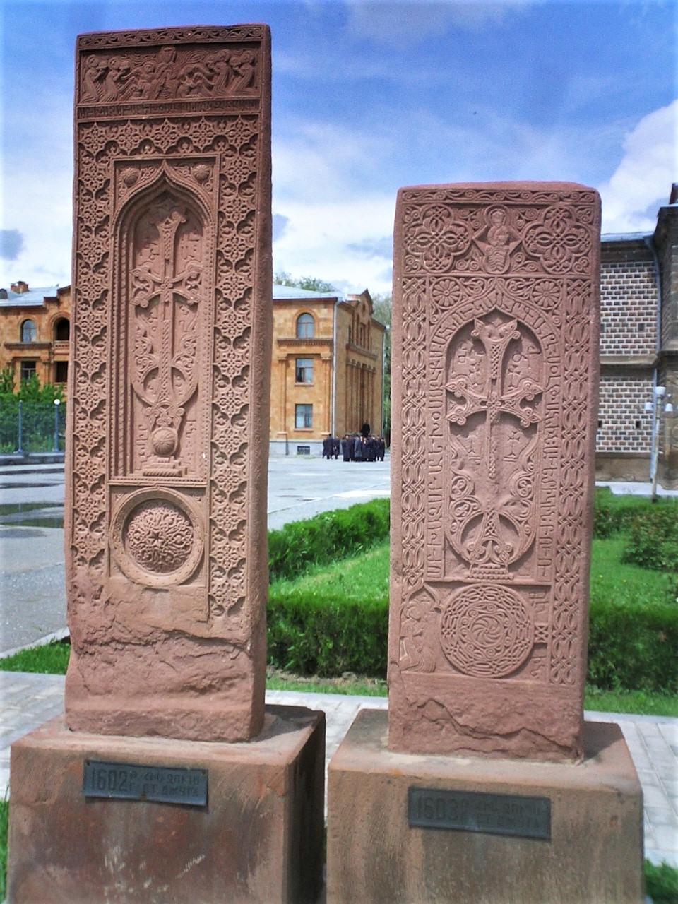 These two khachkars, originally from Jugha were taken to Etchmiadzin, Armenia to be put on display.